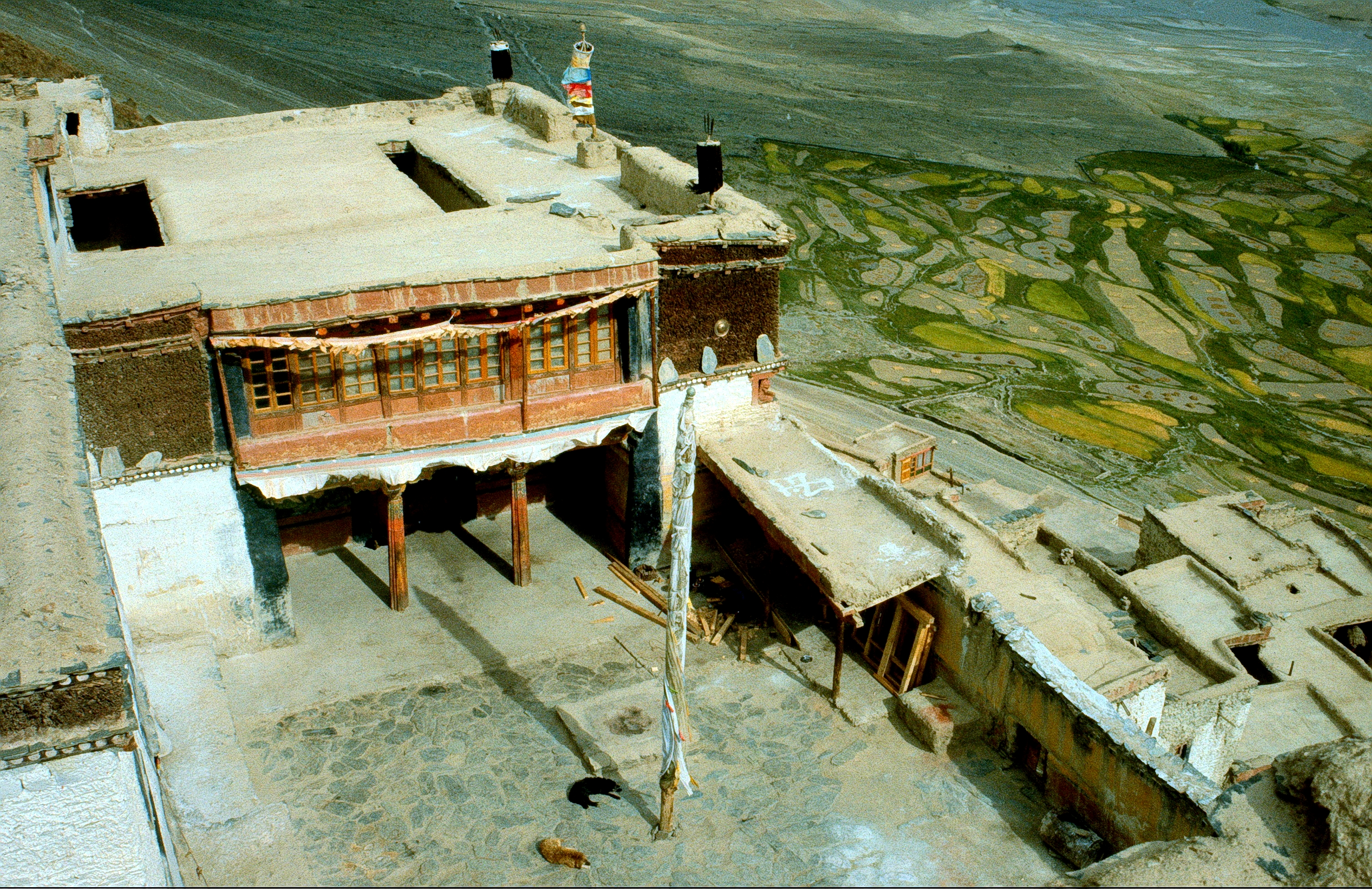 Part of view Kursha gompa, Zanskar/Ladakh.